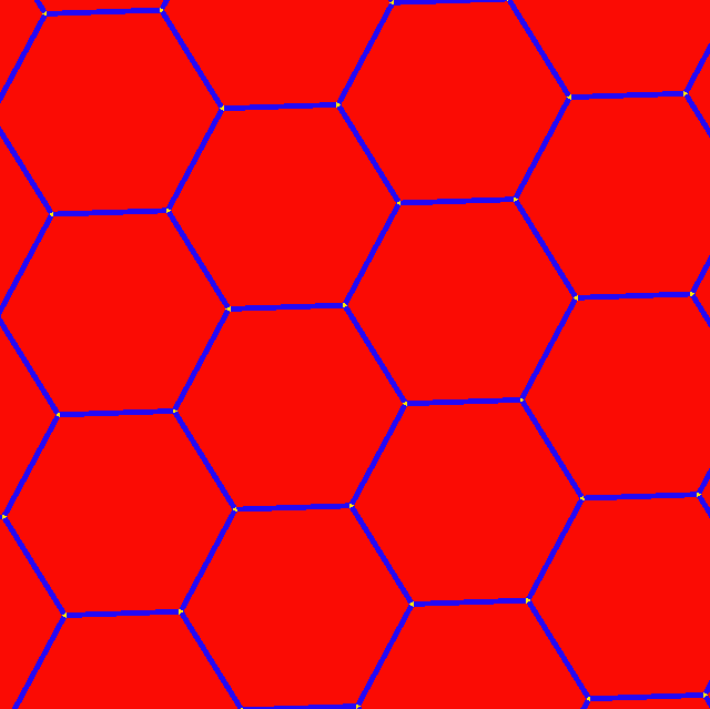 Hexagonal tiling constructed by KaleidoTile, Topology and Geometry Software, Jeff Weeks